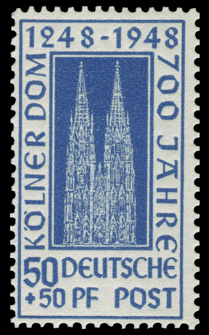 700 years of laying the foundation stone of the Cologne Cathedral (1248-1948) Graphics by Will Ausgabepreis: 50+50 Pfennig First Day of Issue / Erstausgabetag: 15. August 1948 Michel-Katalog-Nr: 72 (Alliierte Besetzung - Bizone)